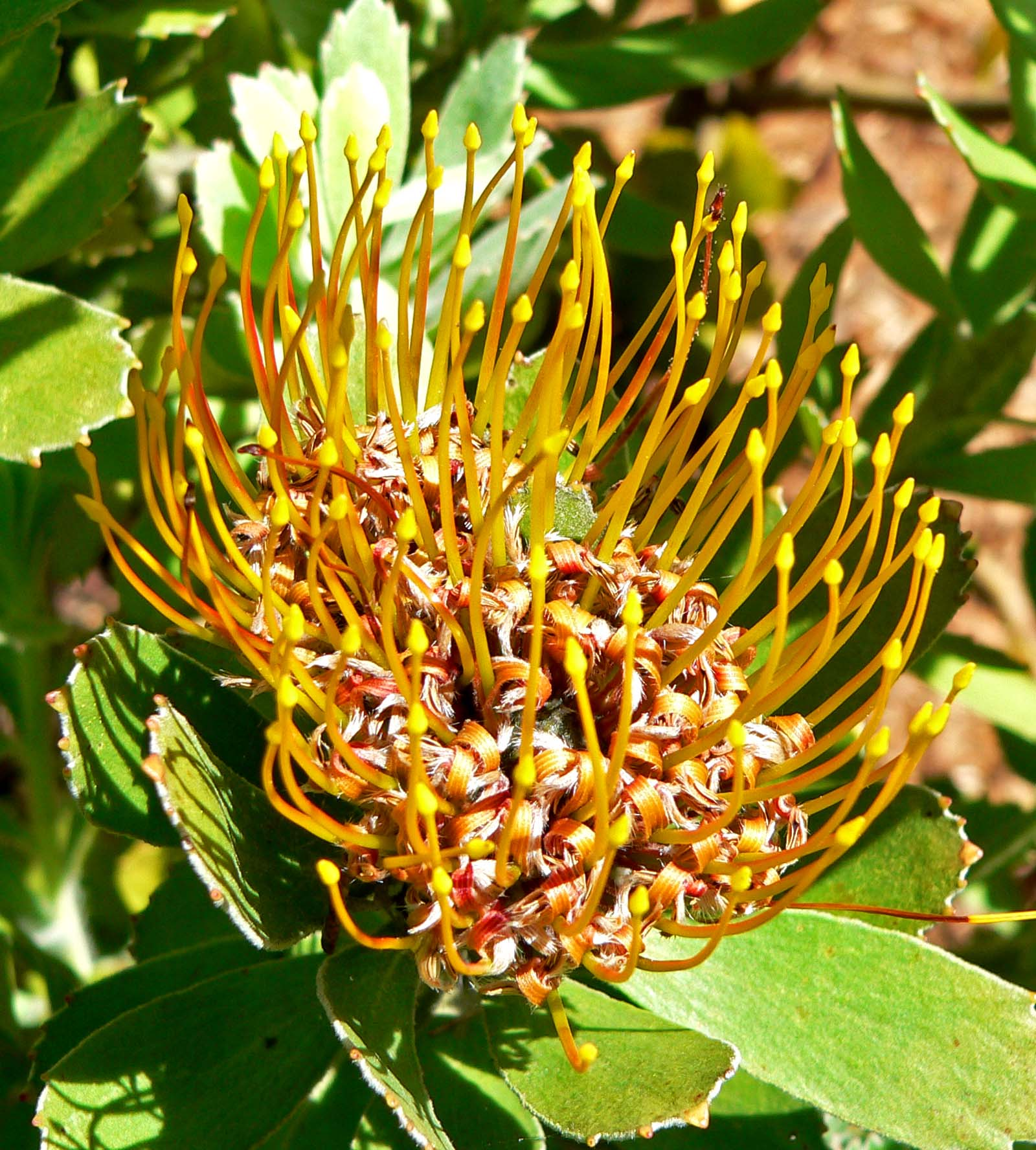 Photo of Leucospermum attenuatum at the San Francisco Botanical Garden